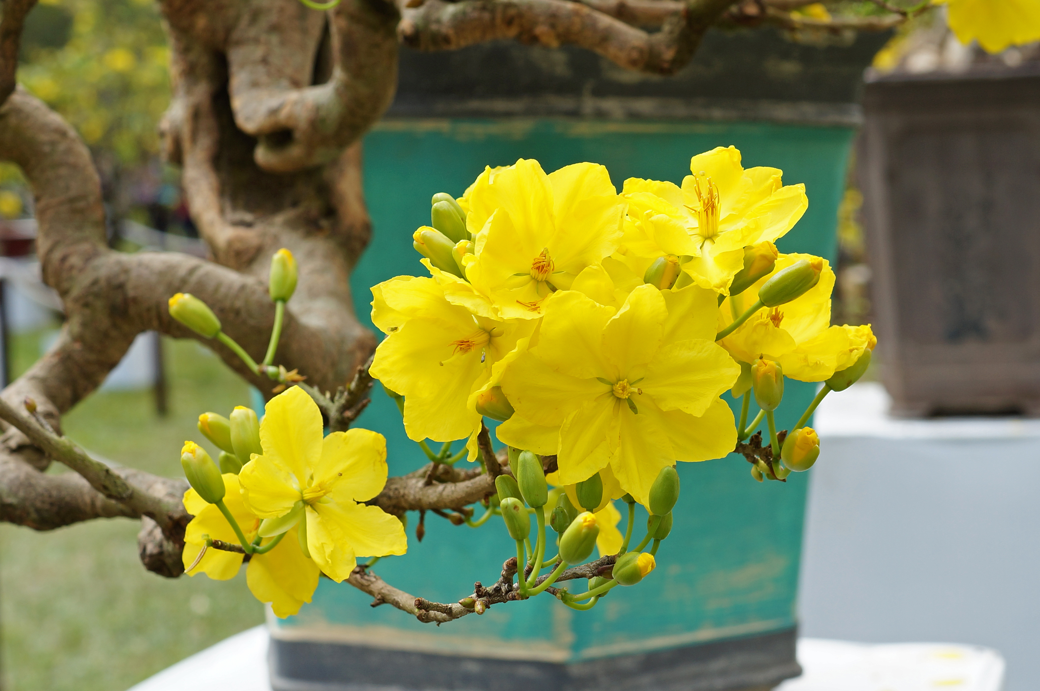 Vietnamese mickey-mouse plant